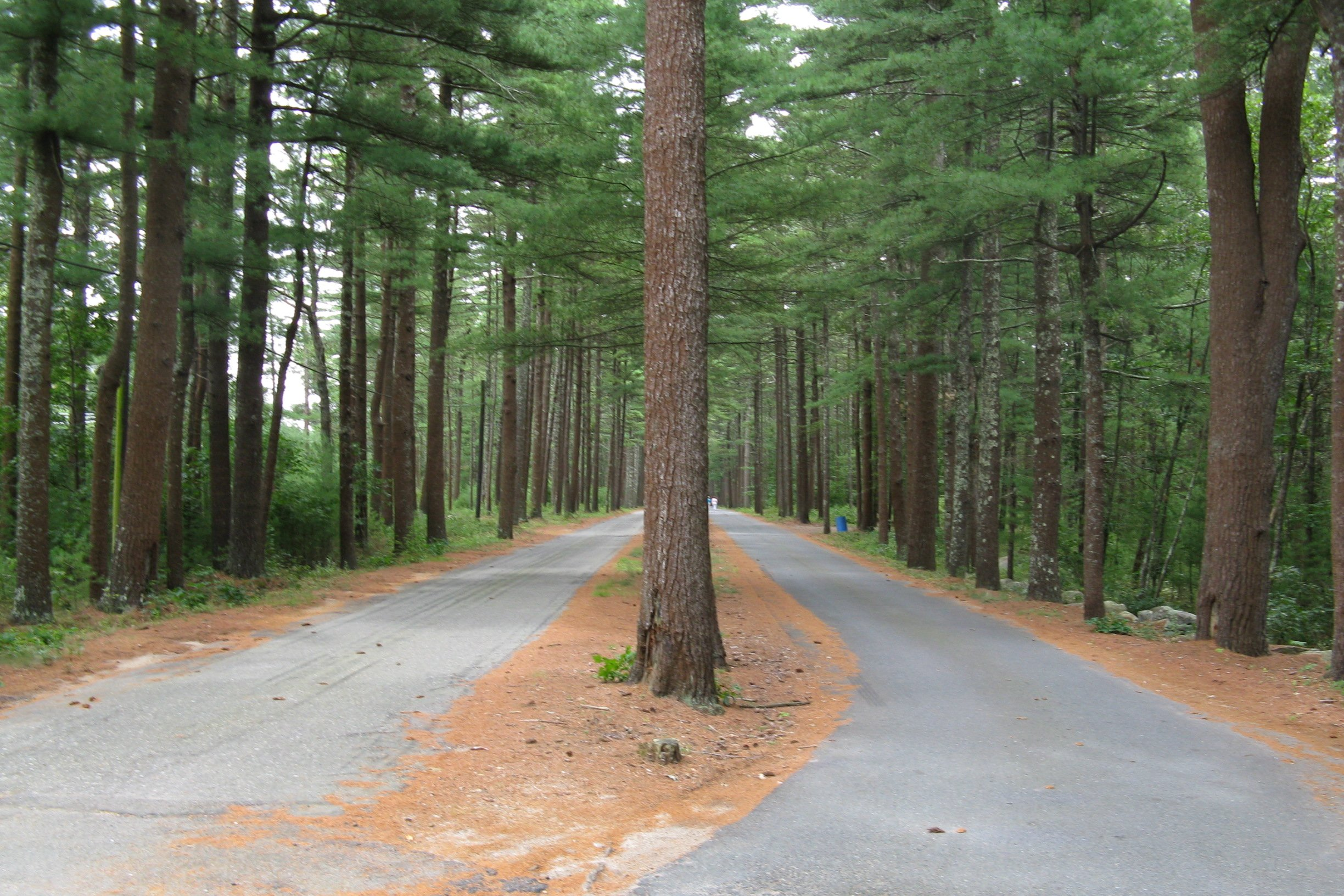 Savery Avenue, Carver Massachusetts The Historic Sign says "Savery's Avenue First Divided Highway in America Presented to the public in 1861 by William Savery"